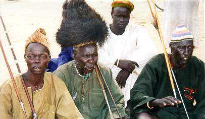 Photograph of Dinka traditional authorities taken by William O. Lowrey during the Wunlit Peace Conference in Wunlit, South Sudan, in 1999.